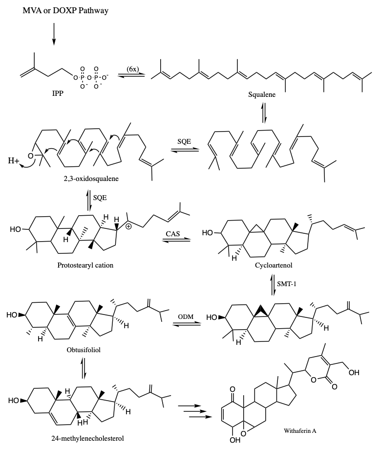 Proposed biosynthetic pathway for production of Withaferin A. Enzyme abbreviations: squalene epoxidase (SQE), cycloartenol synthase (CAS), sterol methyl transferase (SMT), obtusifoliol-14 –demethylase (ODM).